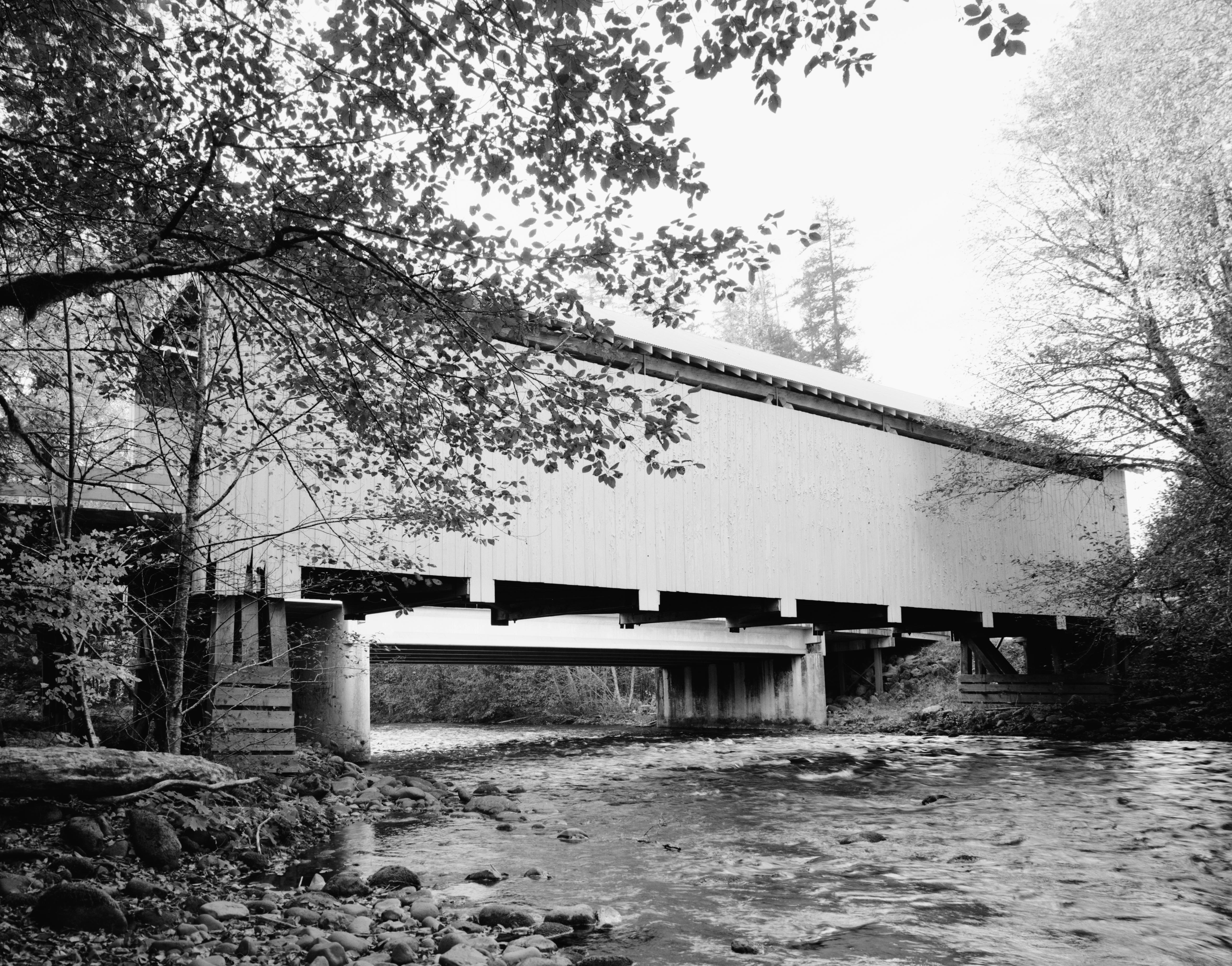 Horse Creek Covered Bridge, Spanning Horse Creek Road at Milepost 1.28, McKenzie Bridge vicinity (Lane County, Oregon)